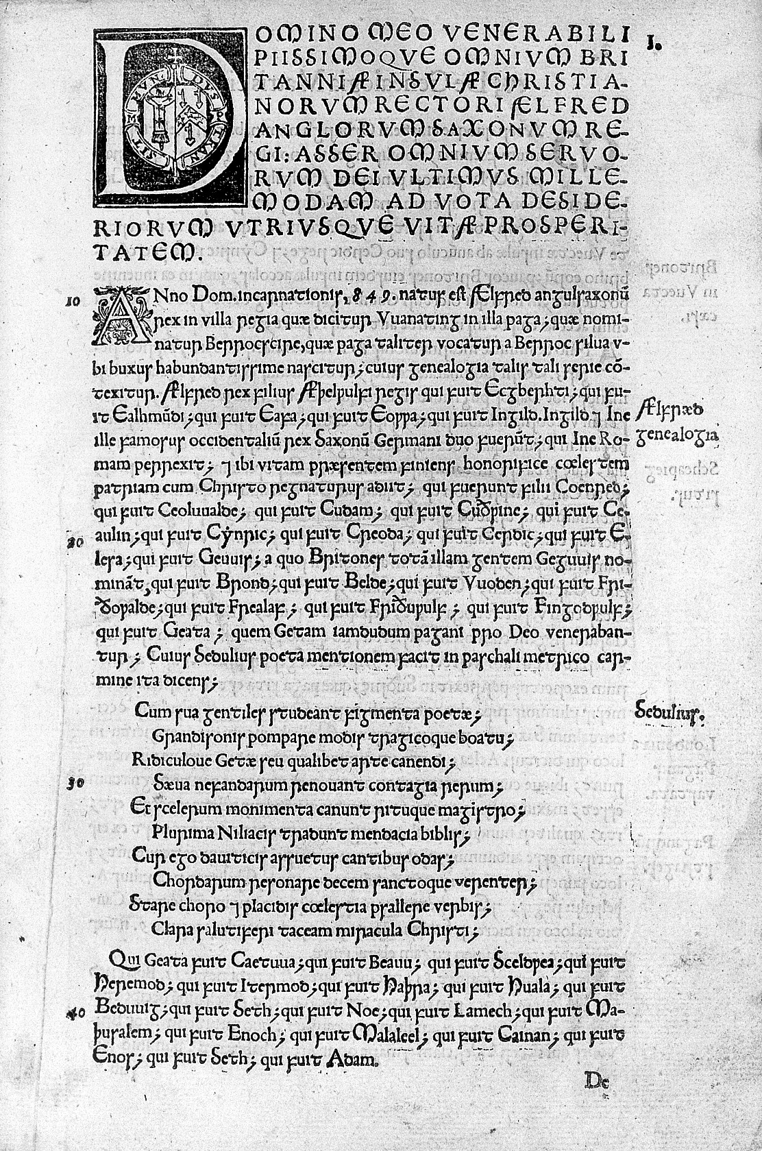 Text in insular characters. Rare Books Keywords: John Asser